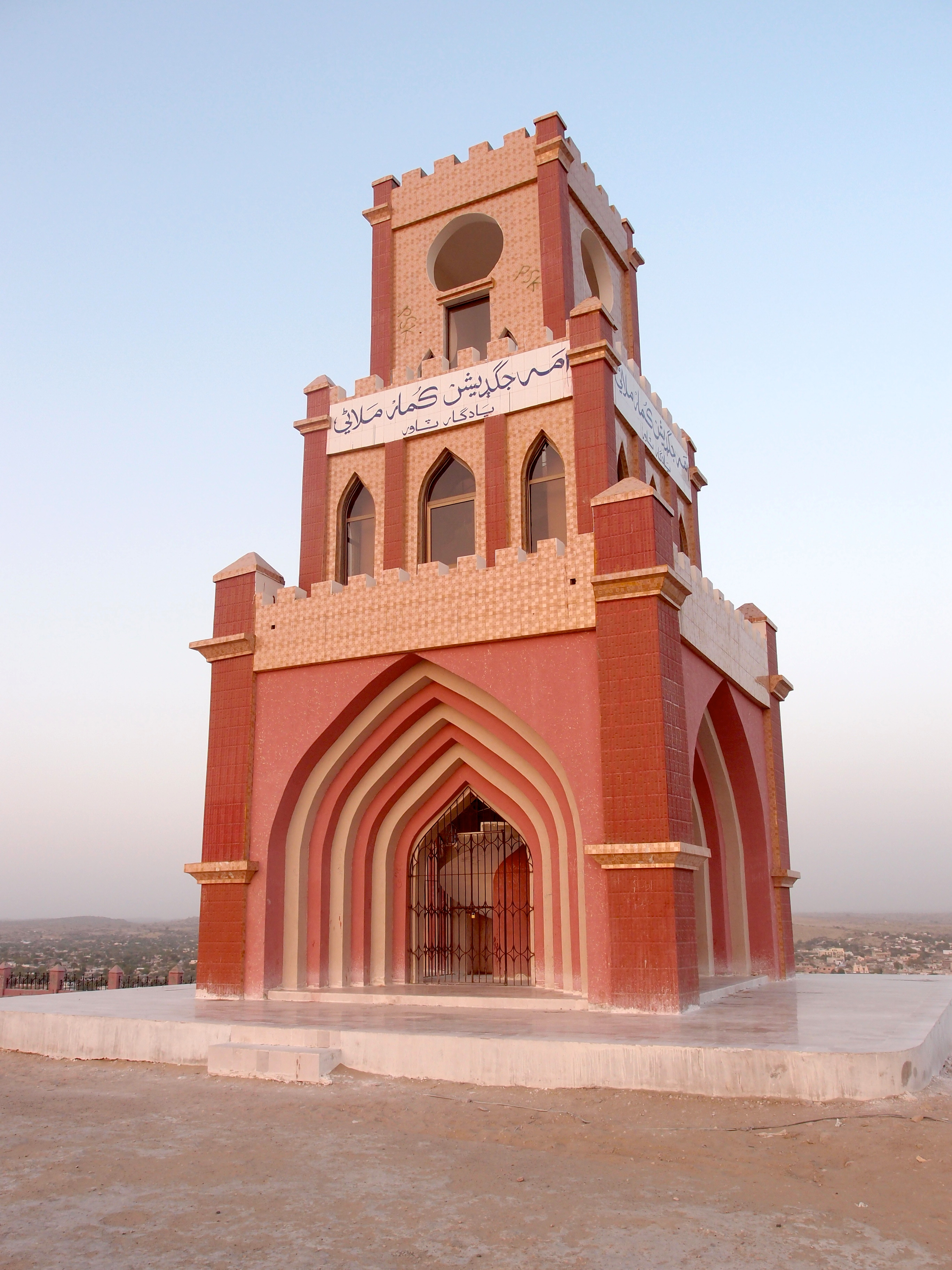 Gadi Bhit, Mithi